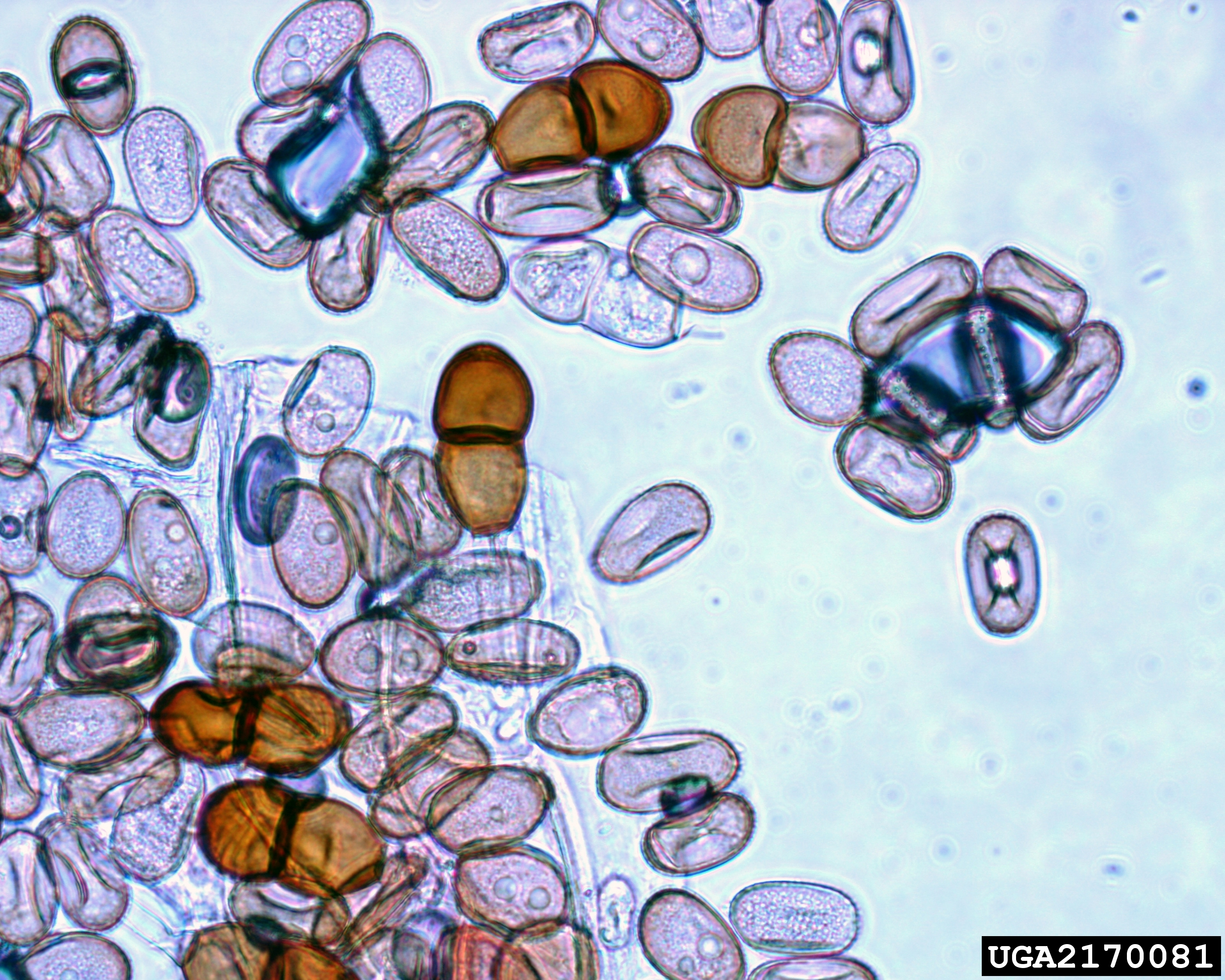 spores of Puccinia tanaceti